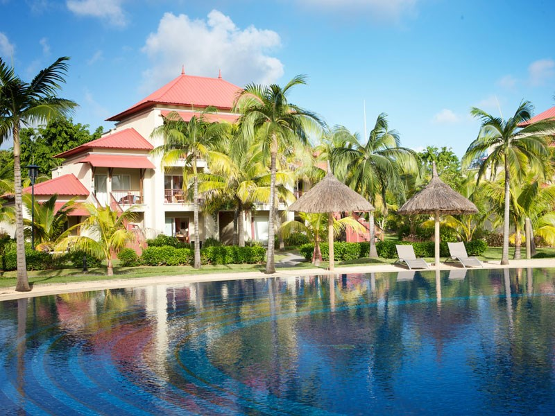 Tamassa, All-Inclusive Hotel in Mauritius